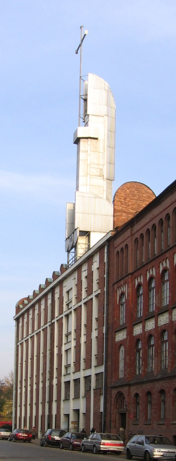 Wrocław, Poland St. Ignatius Loyola church